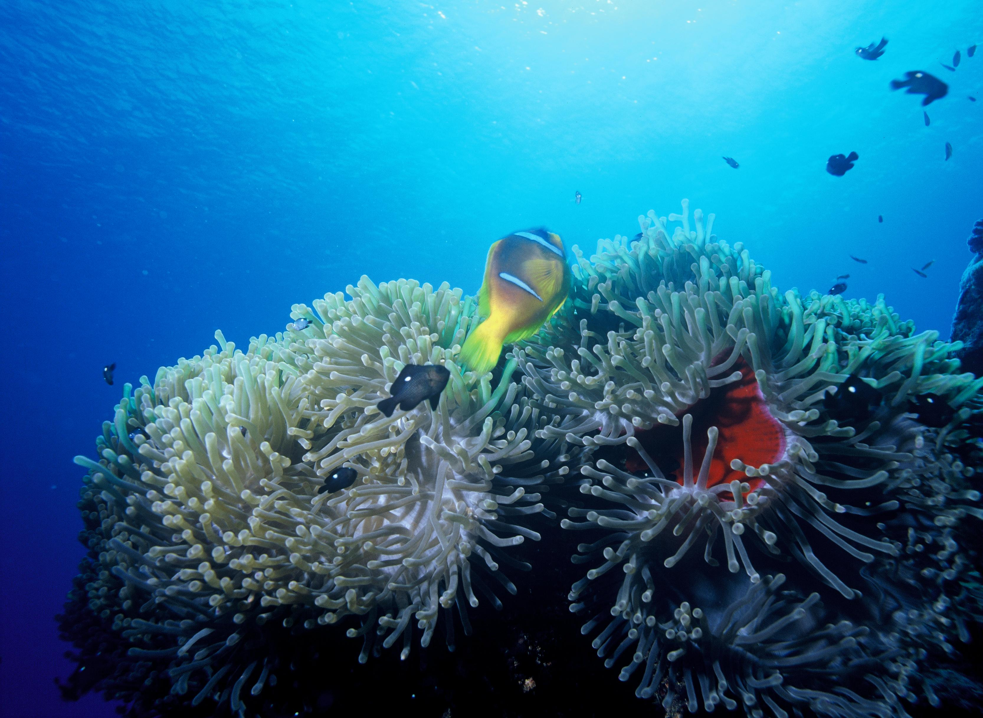 Description Amphiprion bicinctus Amphiprion (Clownsvis_ Date1990SourceRode ZeeAuthorAlbert KokPermission (Reusing this file) Piblic Domain Amphiprion bicinctus Amphiprion (Clownsvis_